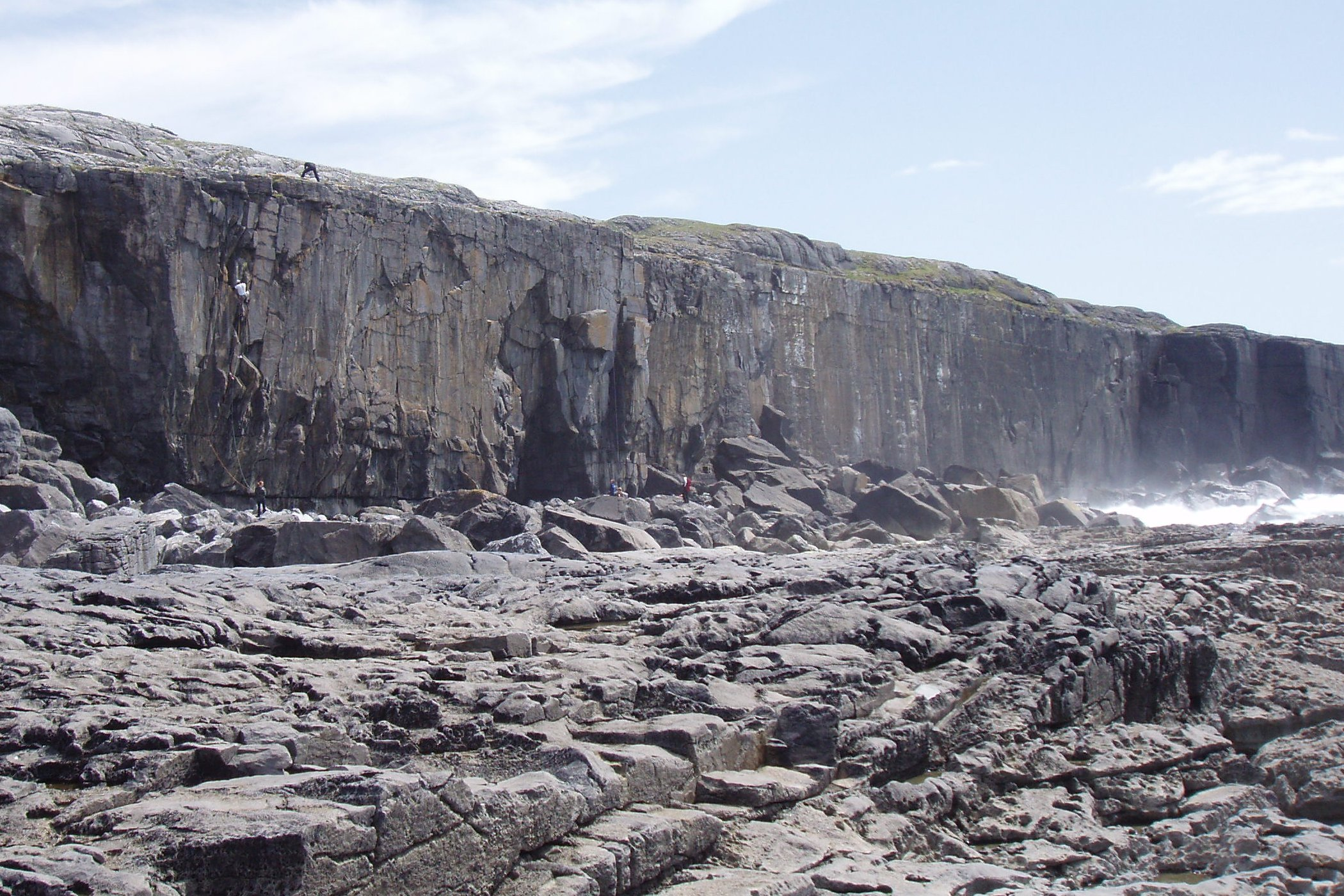 The middle sectors of Ailladie, a rock climbing venue in County Clare, Ireland